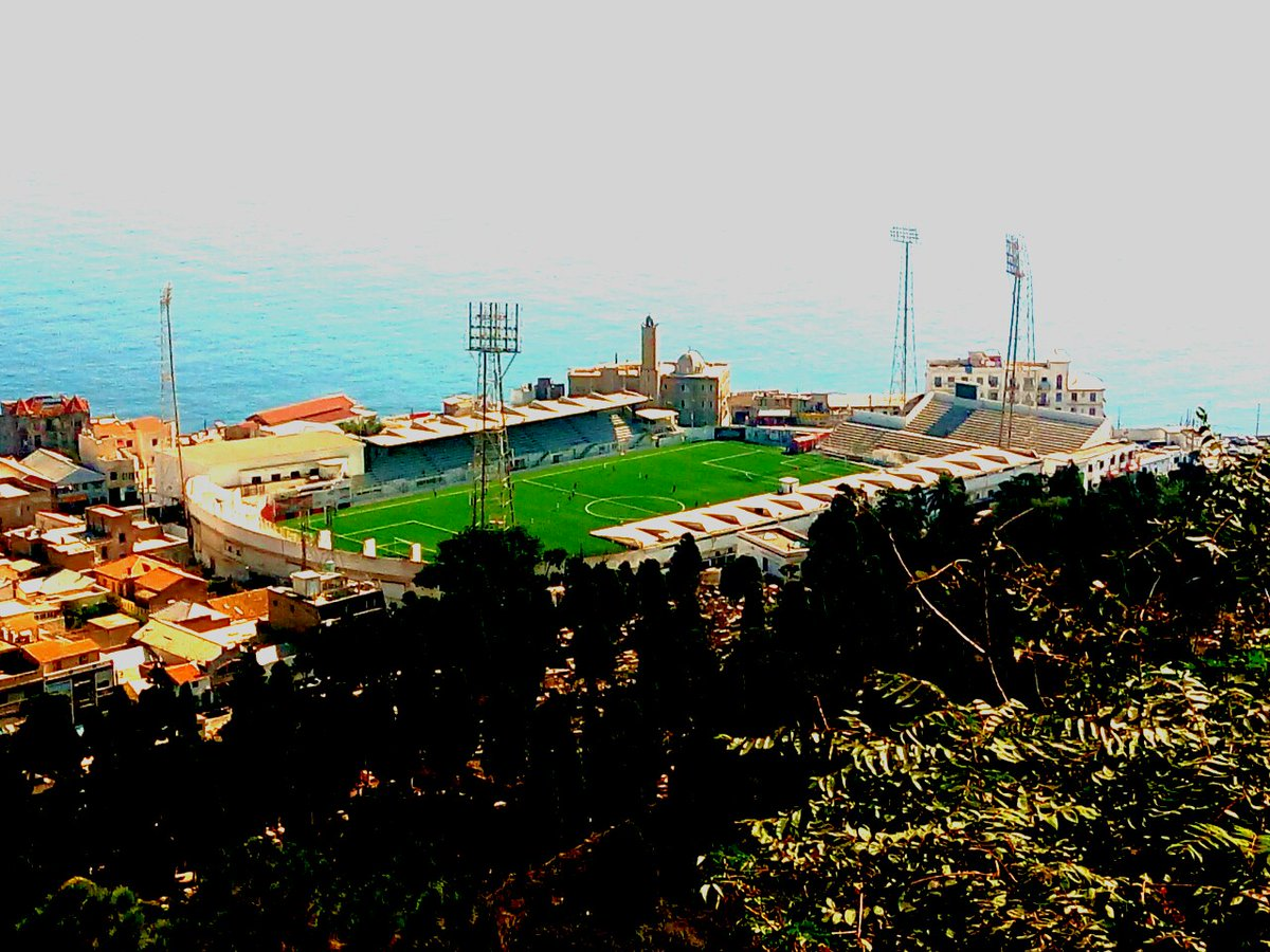 Omar Hamadi Stadium from Notre-Dame d'Afrique